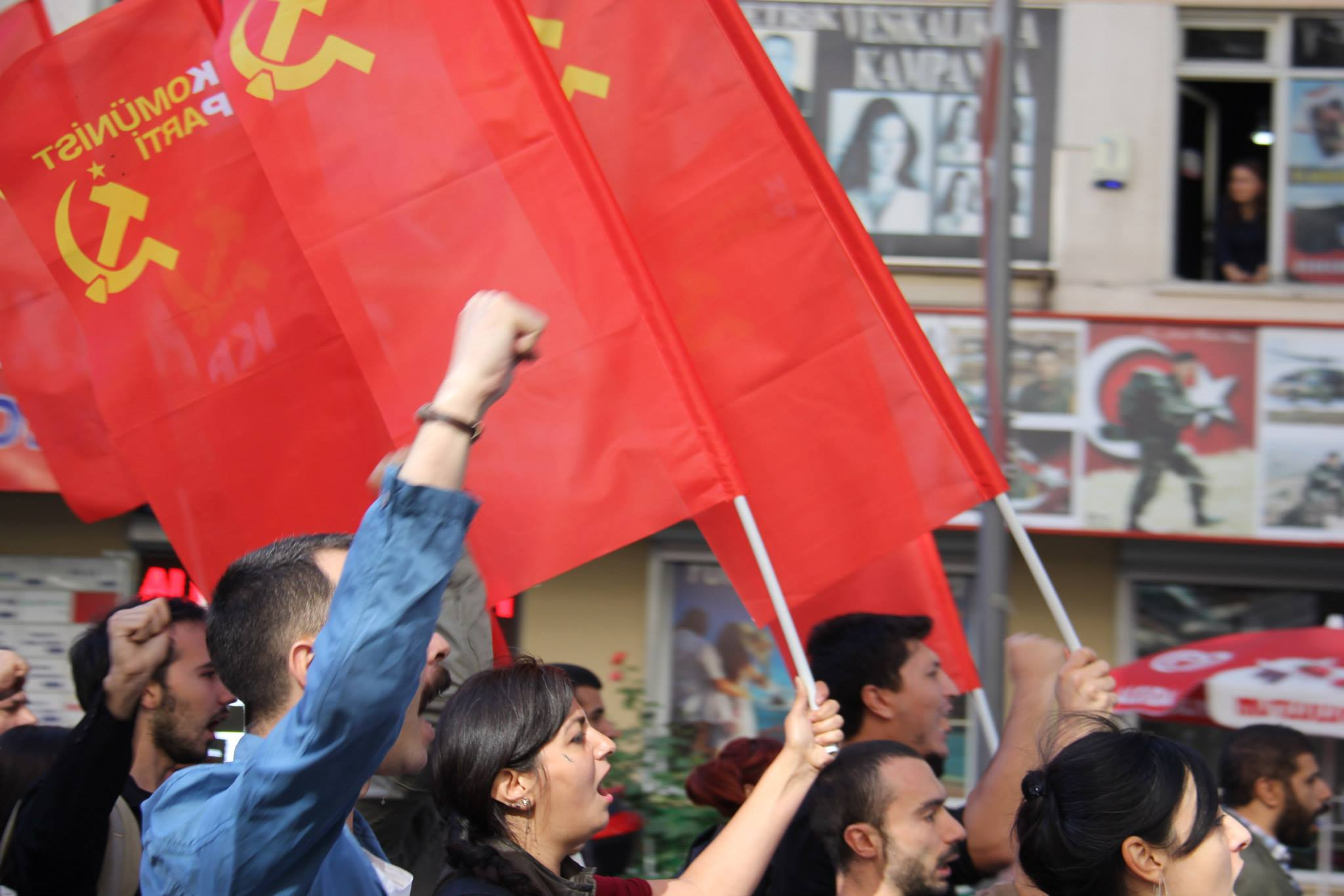 Communist Party 21092014 Ankara Solidarity march with Van ISKUR workers